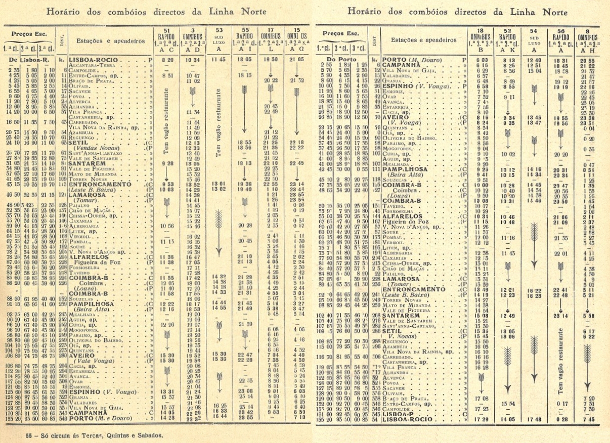 Timetable of the CP - Companhia dos Caminhos de Ferro Portugueses (Portuguese Railways Company), for the Linha do Norte (Northern Railway), and the section of the Linha do Minho (Minho Railway) to the Porto - São Bento Train Station. This image was published on the Gazeta dos Caminhos de Ferro magazine no. 1089, of the 1st May 1933, and scanned by the Hemeroteca Municipal de Lisboa.